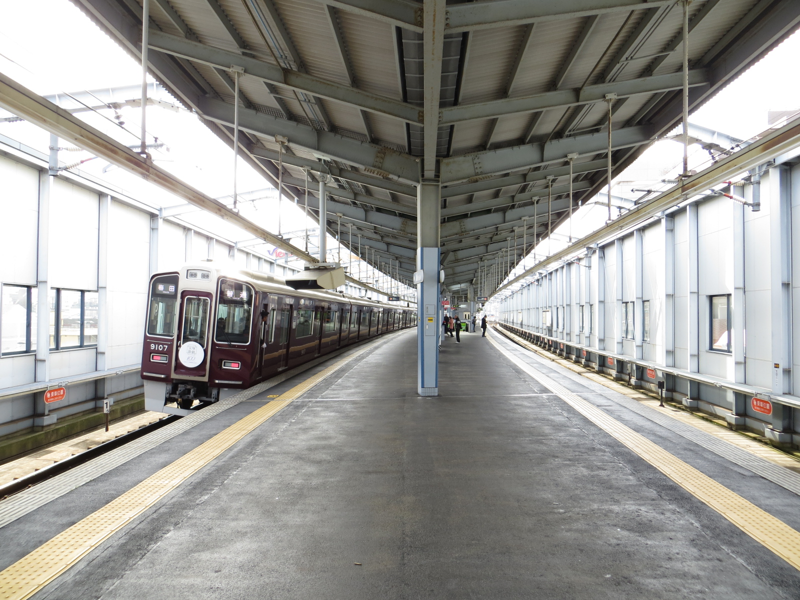 Platform from Mikuni Station (Osaka) (HK41).